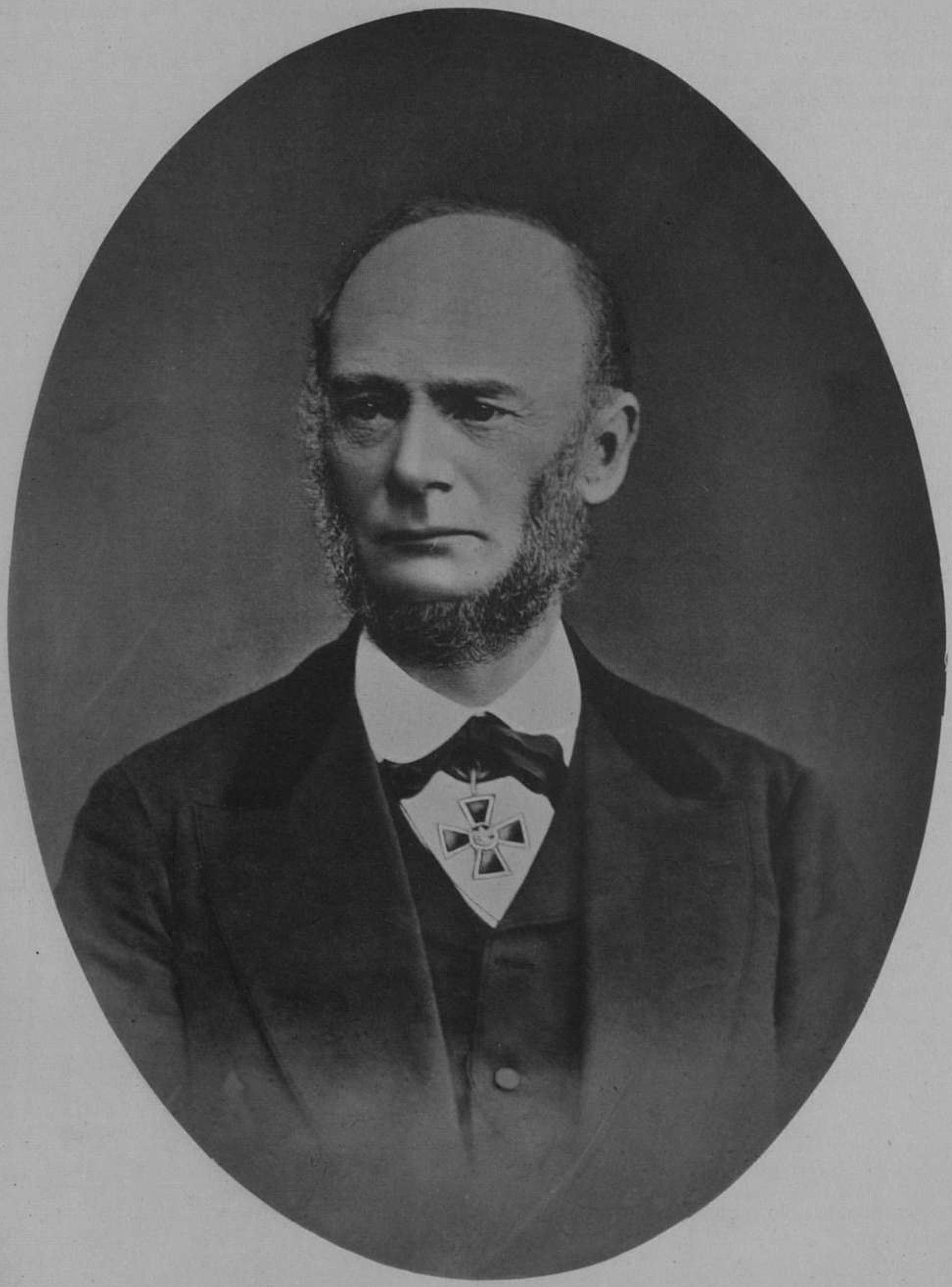 Rudolf Berngard